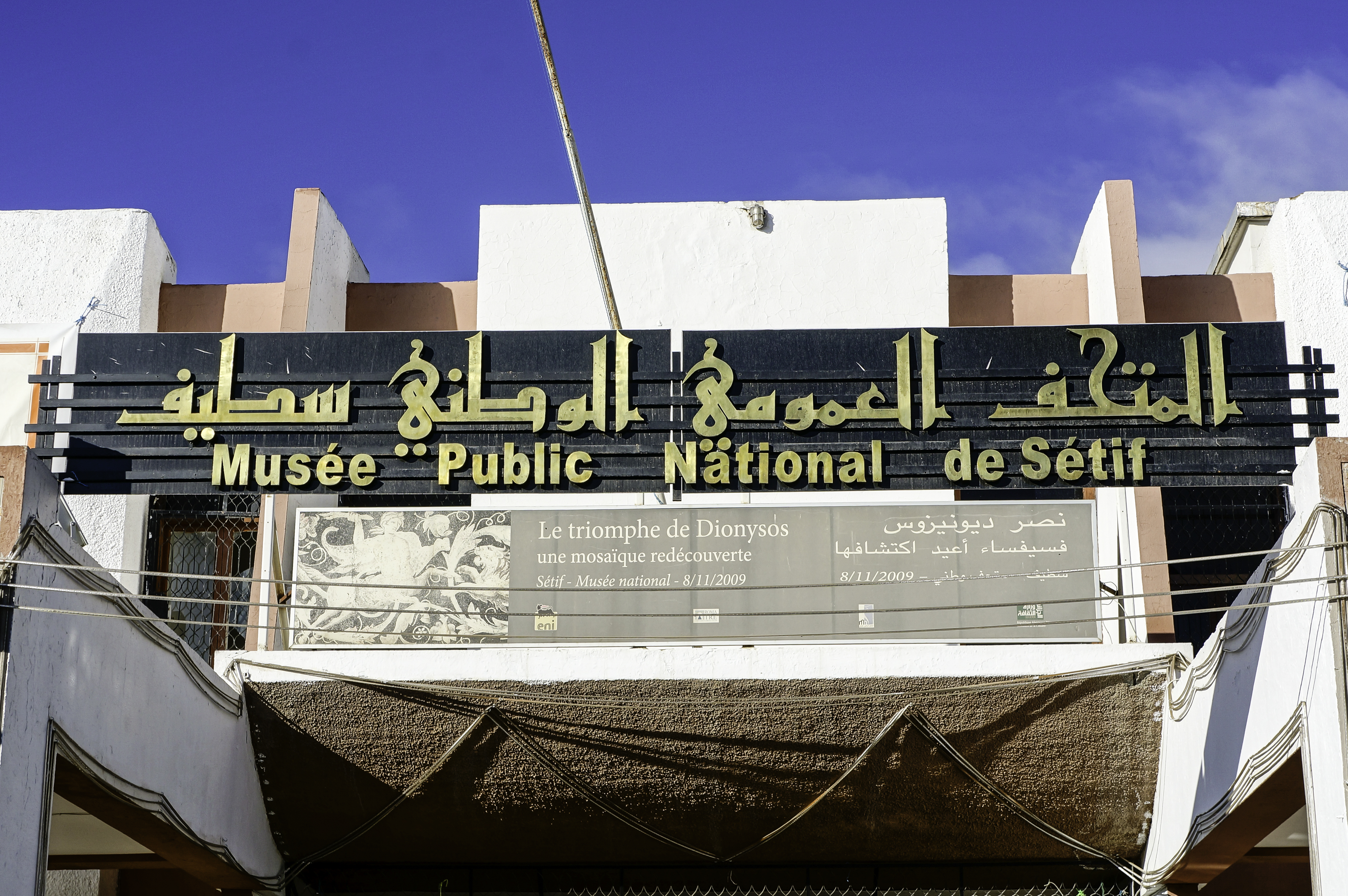 Setif Museum